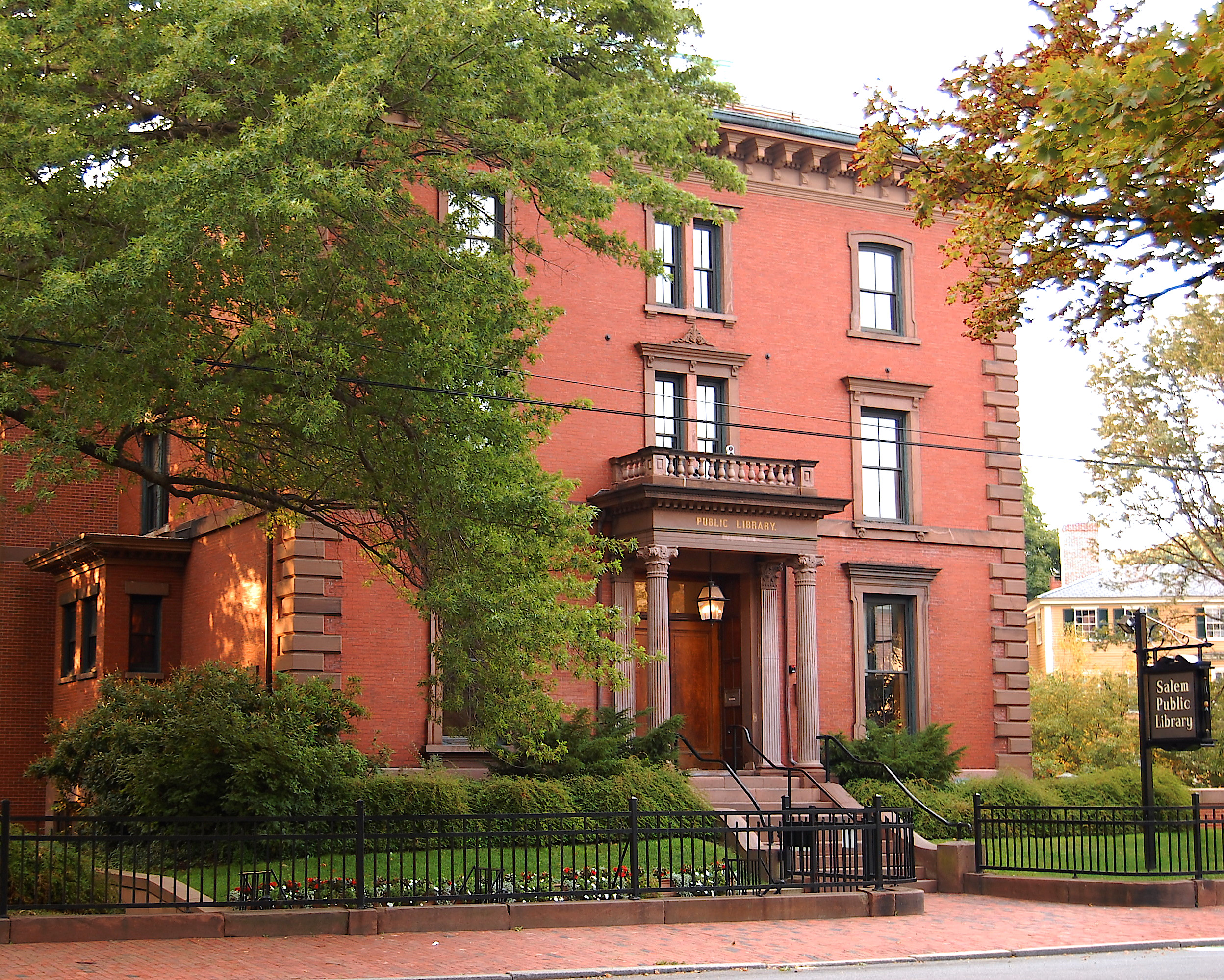 The Salem Public Library, Salem, Massachusetts. Built in the mid-1800s for John Bertram, a wealthy sea captain, and later donated to the City of Salem. Exemplifies the Italianate style of architecture popular then.